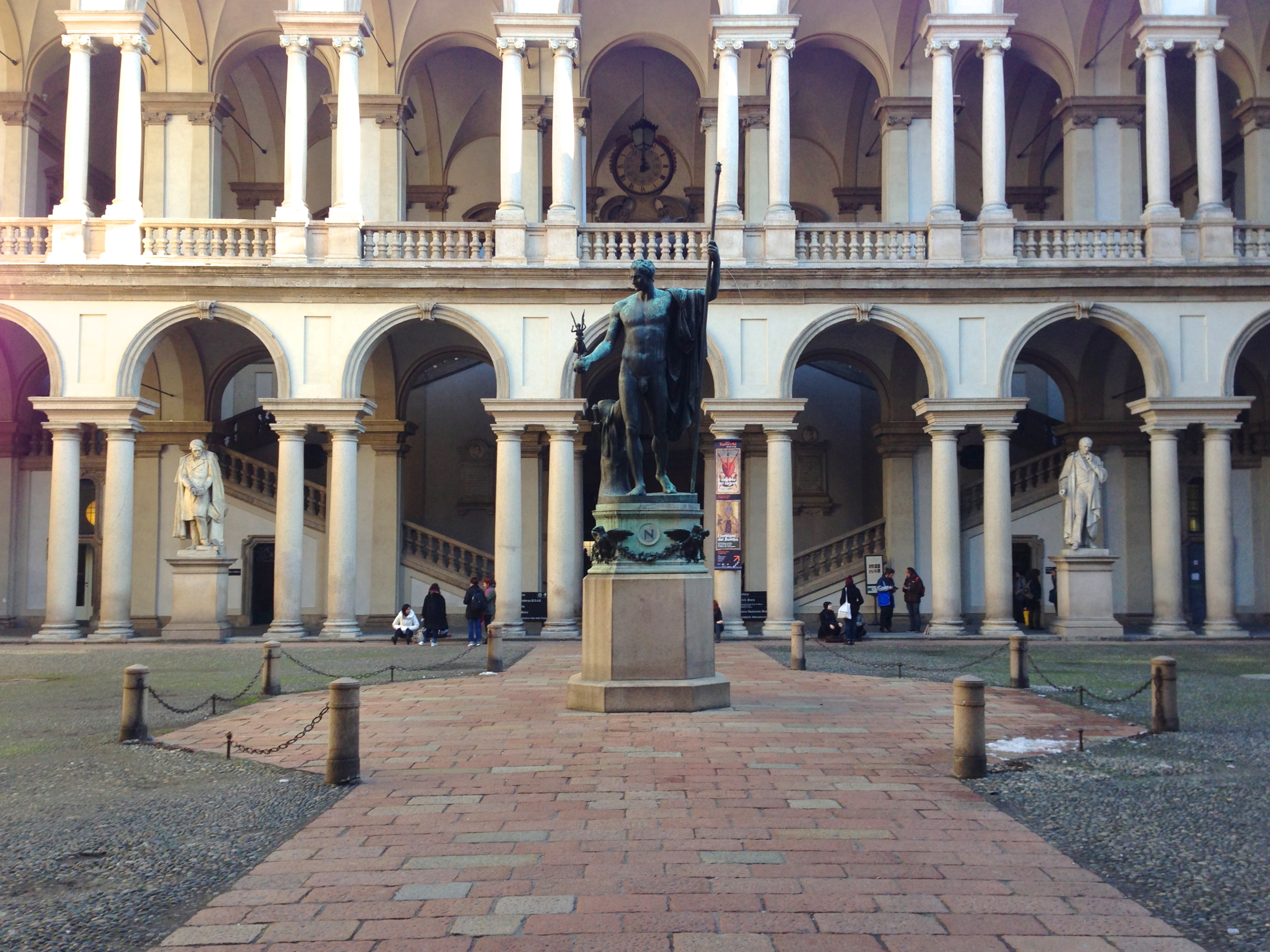 Brera Academy, Milan, Italy View of the main court yard